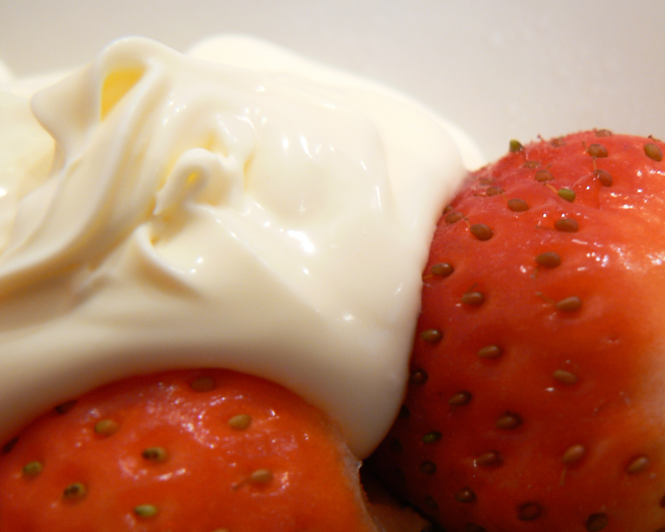 Strawberries and crème fraîche.